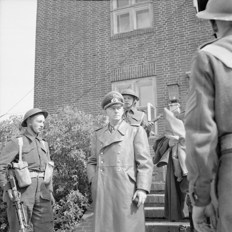 Germany Under Allied Occupation General Jodl under guard by men of 'A' Company, 1st Battalion, The Cheshire Regiment who raided a house in Muivik, a few miles from Flensburg, where members of the German Government were located. In total, twelve 'Grade 1' prisoners were taken including General Jodl.